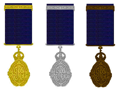 Kaiser-I-Hind of British India George V issue